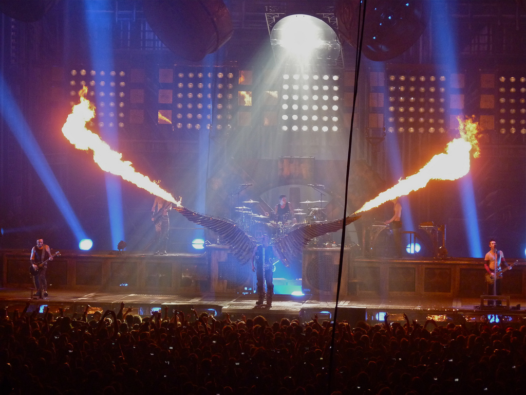 Rammstein performing Engel live in London.